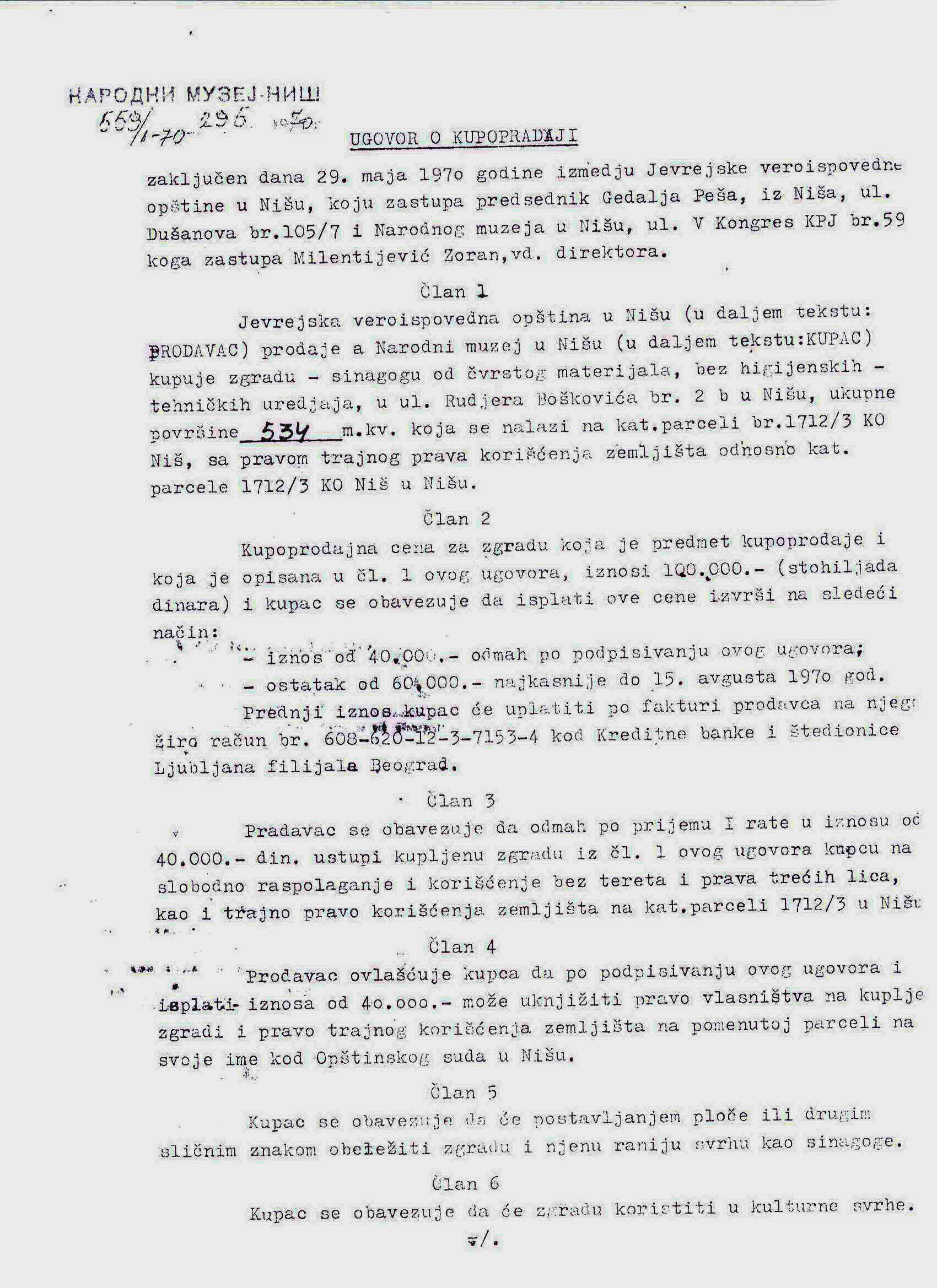 Agreement on the sale of the Synagogue in Niš